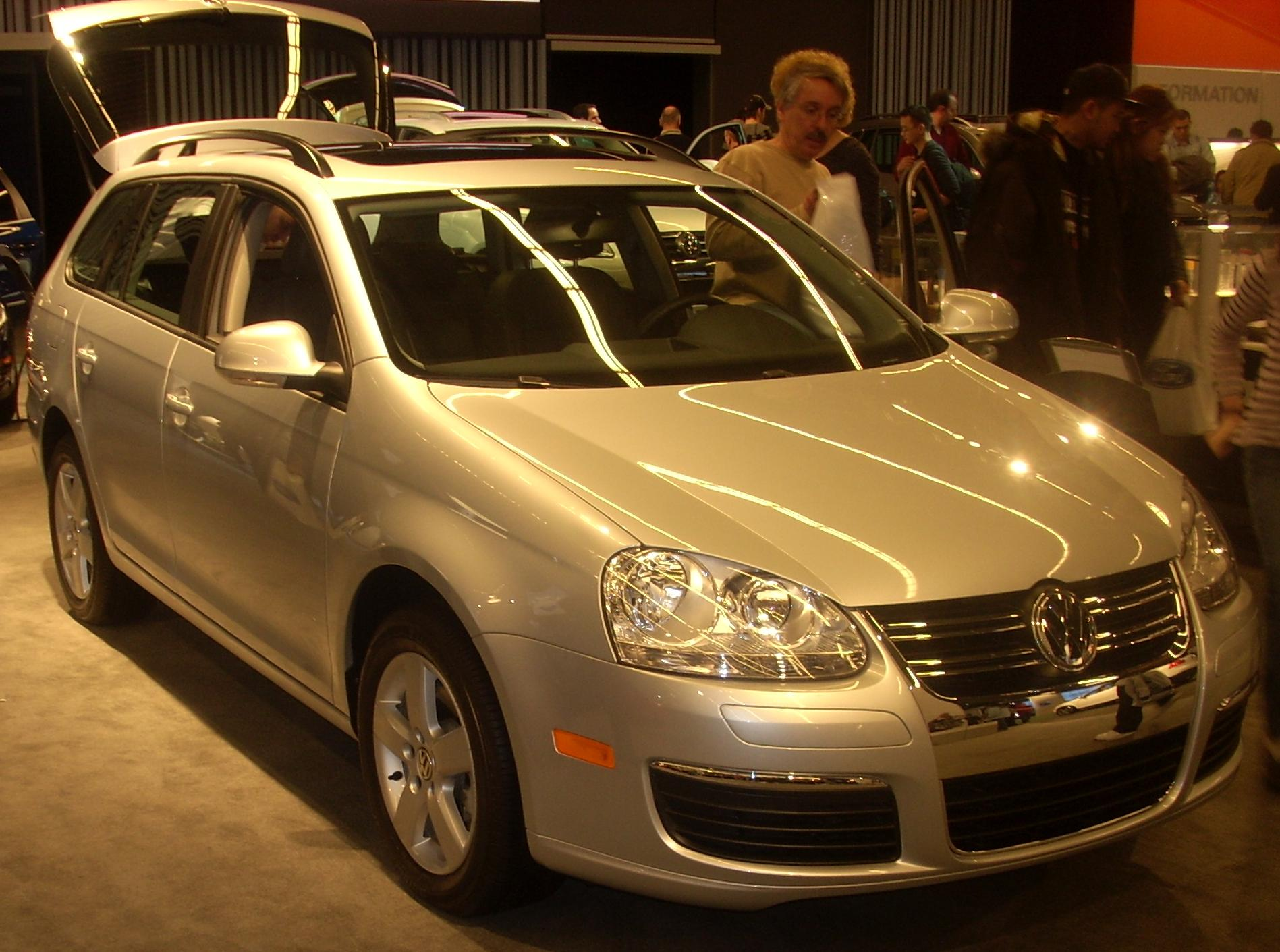 2009 Volkswagen Jetta photographed at the 2008 Montreal Auto Show.